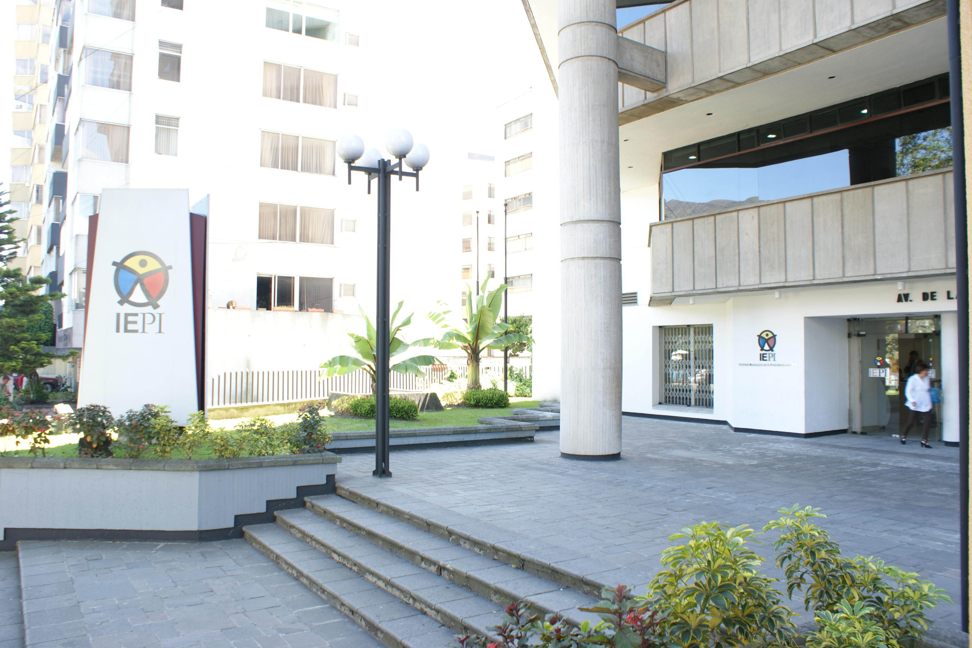 Access to the building entrance of the Ecuadorian Institute of Intellectual Property in Quito, Av. República 396 y Diego de Almagro.